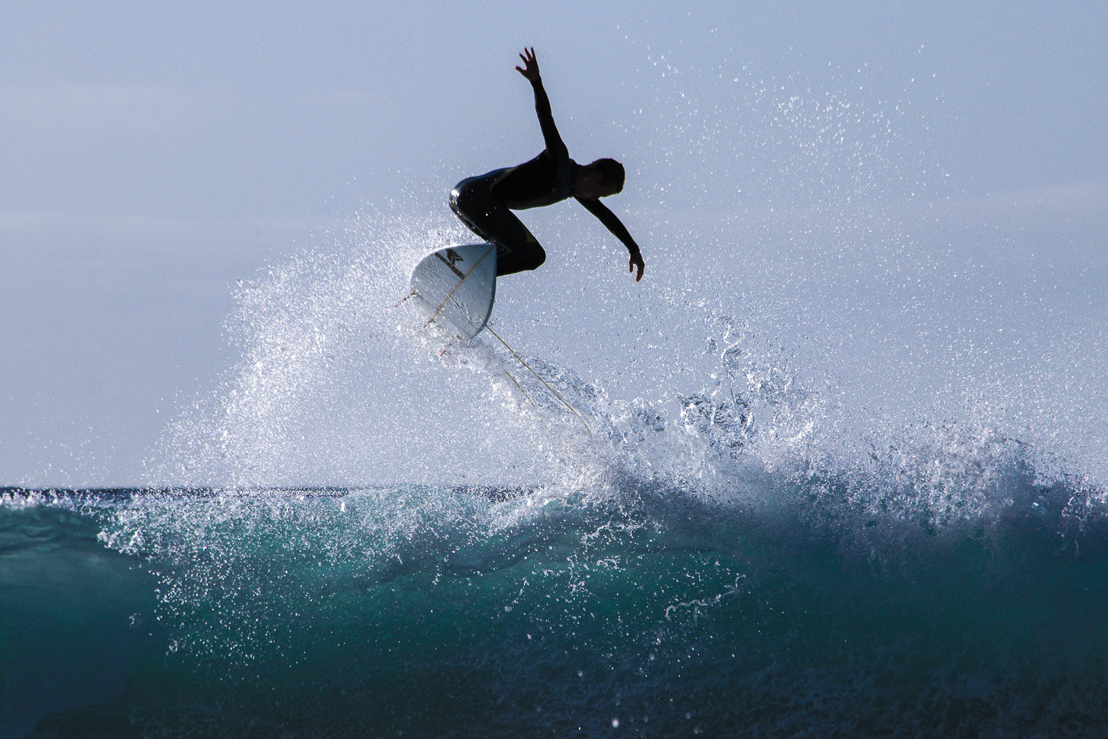 Surf at Tenerife, Canary islands